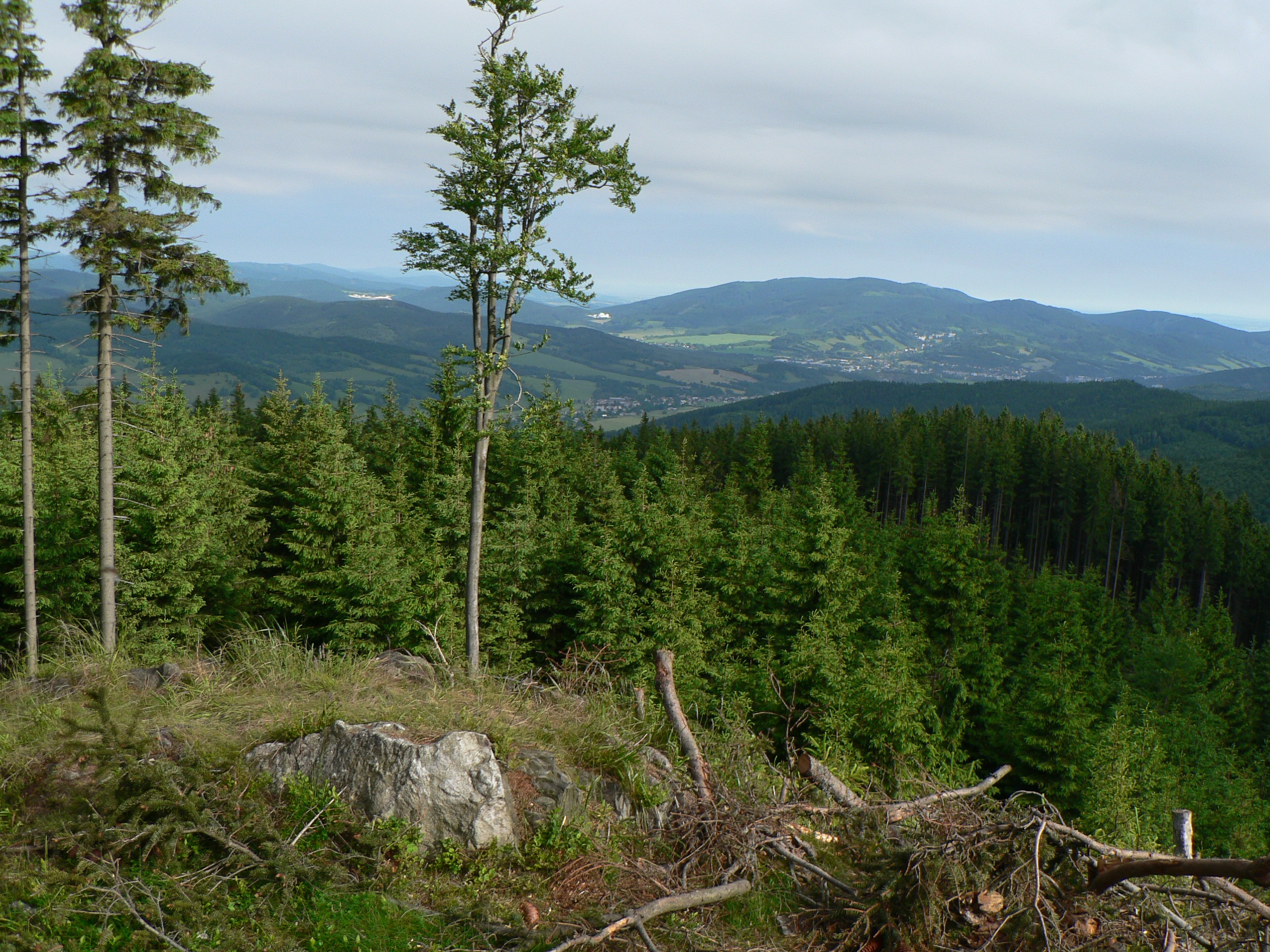 View from top of Zajeci hora mountain, Hruby Jesenik Mts., Czech republic.